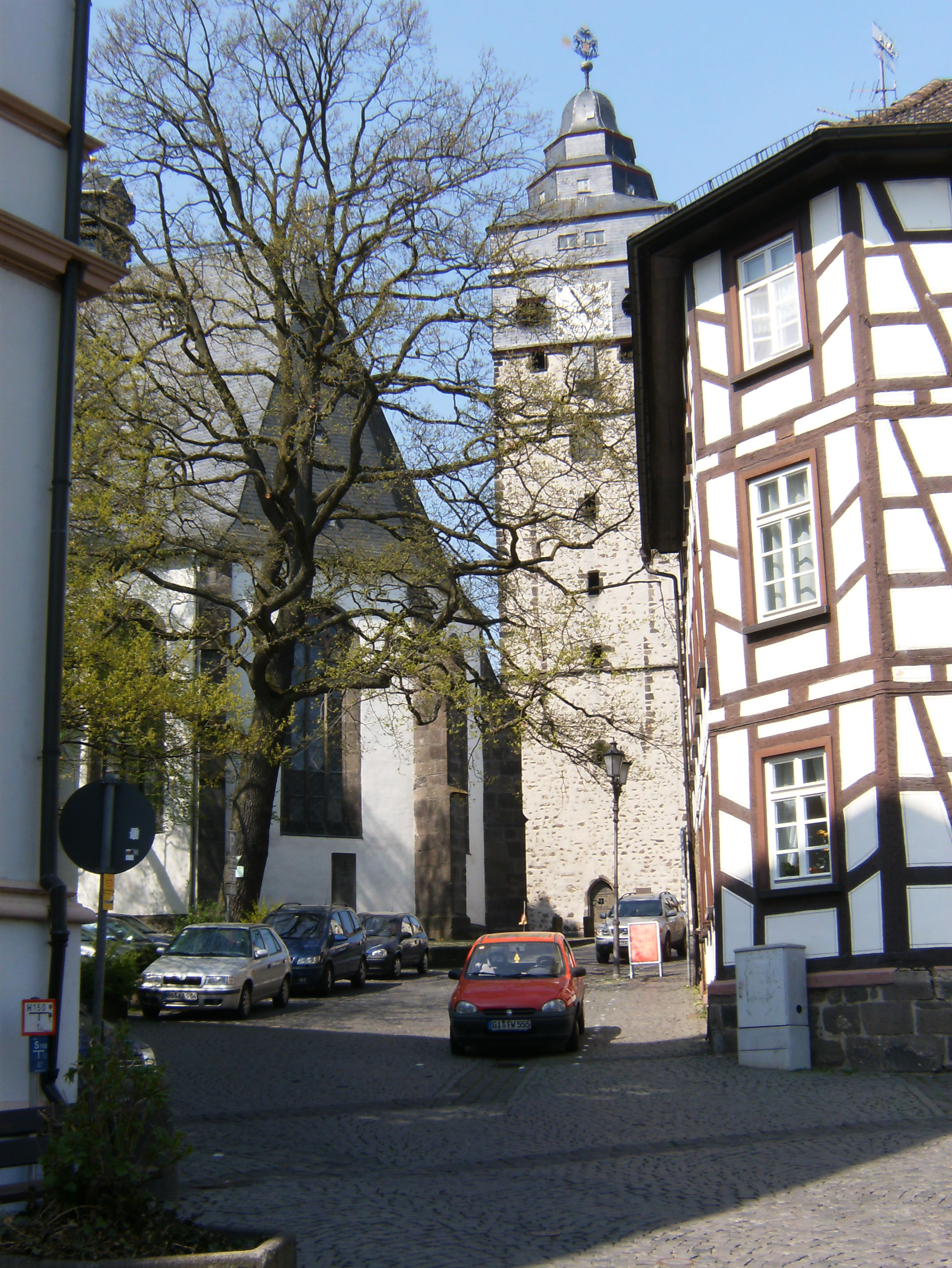 View from Marketplace to Marienstiftskirche and municipal tower.